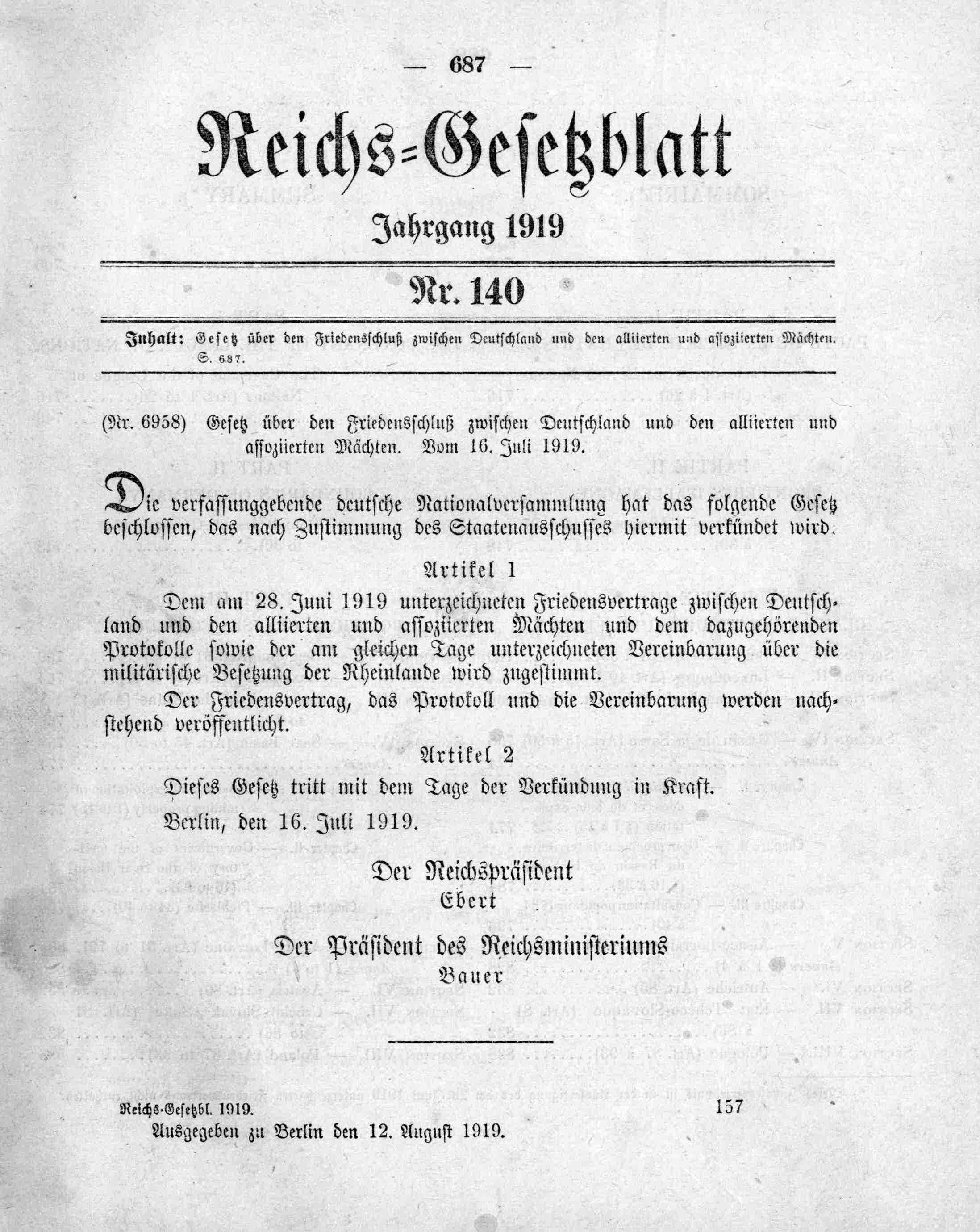 Scan from the Imperial Law Gazette of Germany, 1919